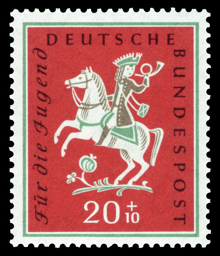 Social stamp for the youth, 1958, children's song, Ein Jäger aus Kurpfalz Graphics by Göhlert Ausgabepreis: 20+10 Pfennig First Day of Issue / Erstausgabetag: 1. April 1958 Michel-Katalog-Nr: 287